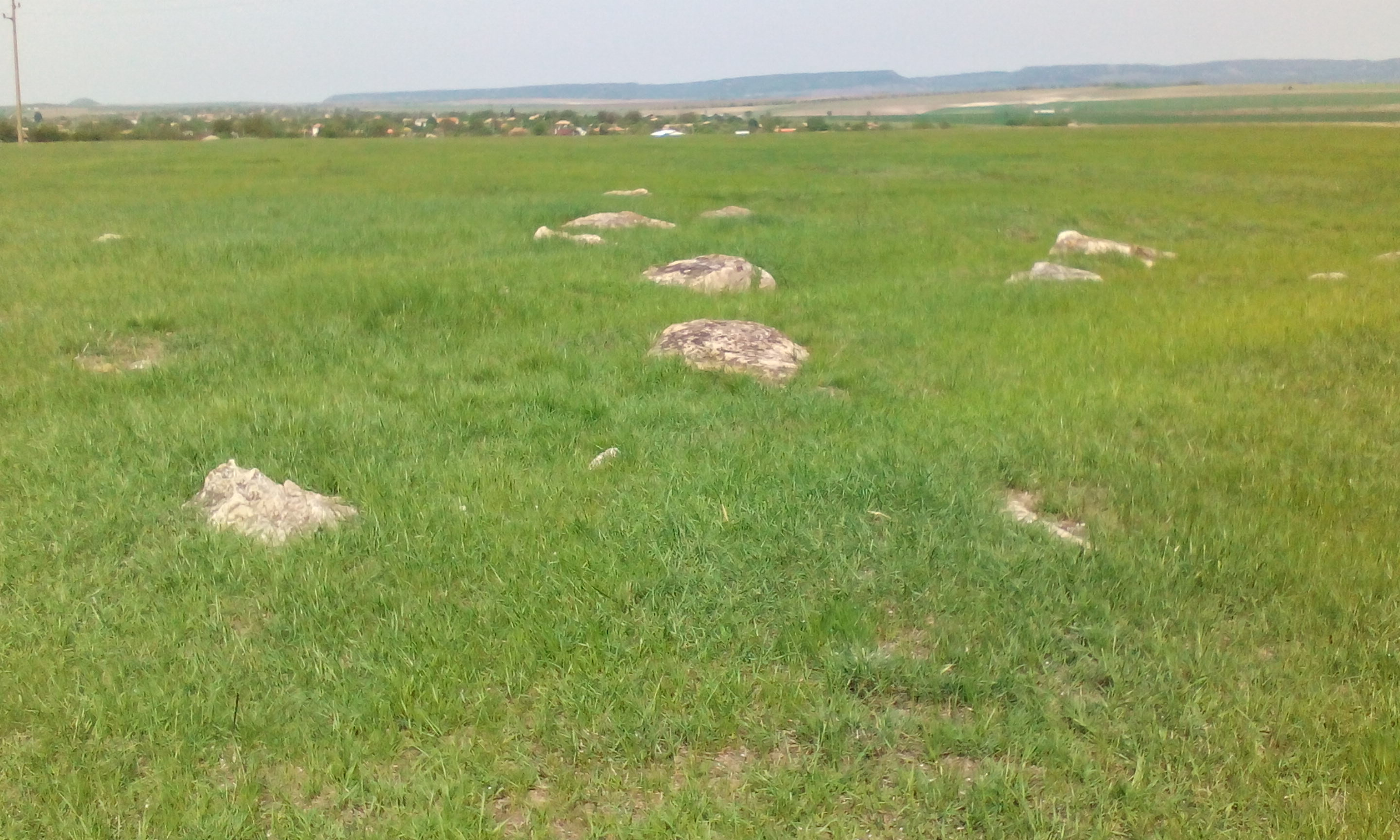 Menhirs near Pliska